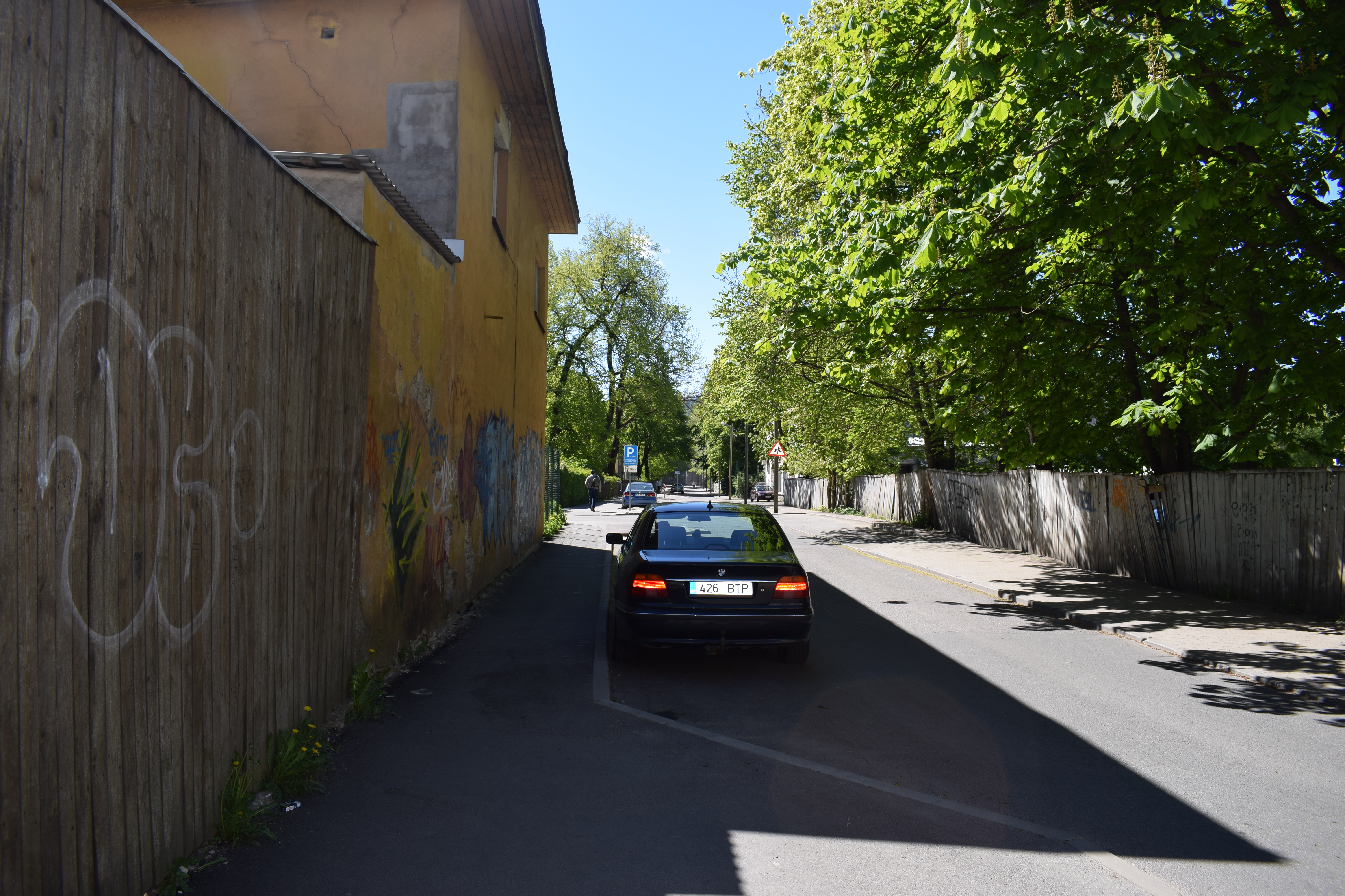 Planeedi street